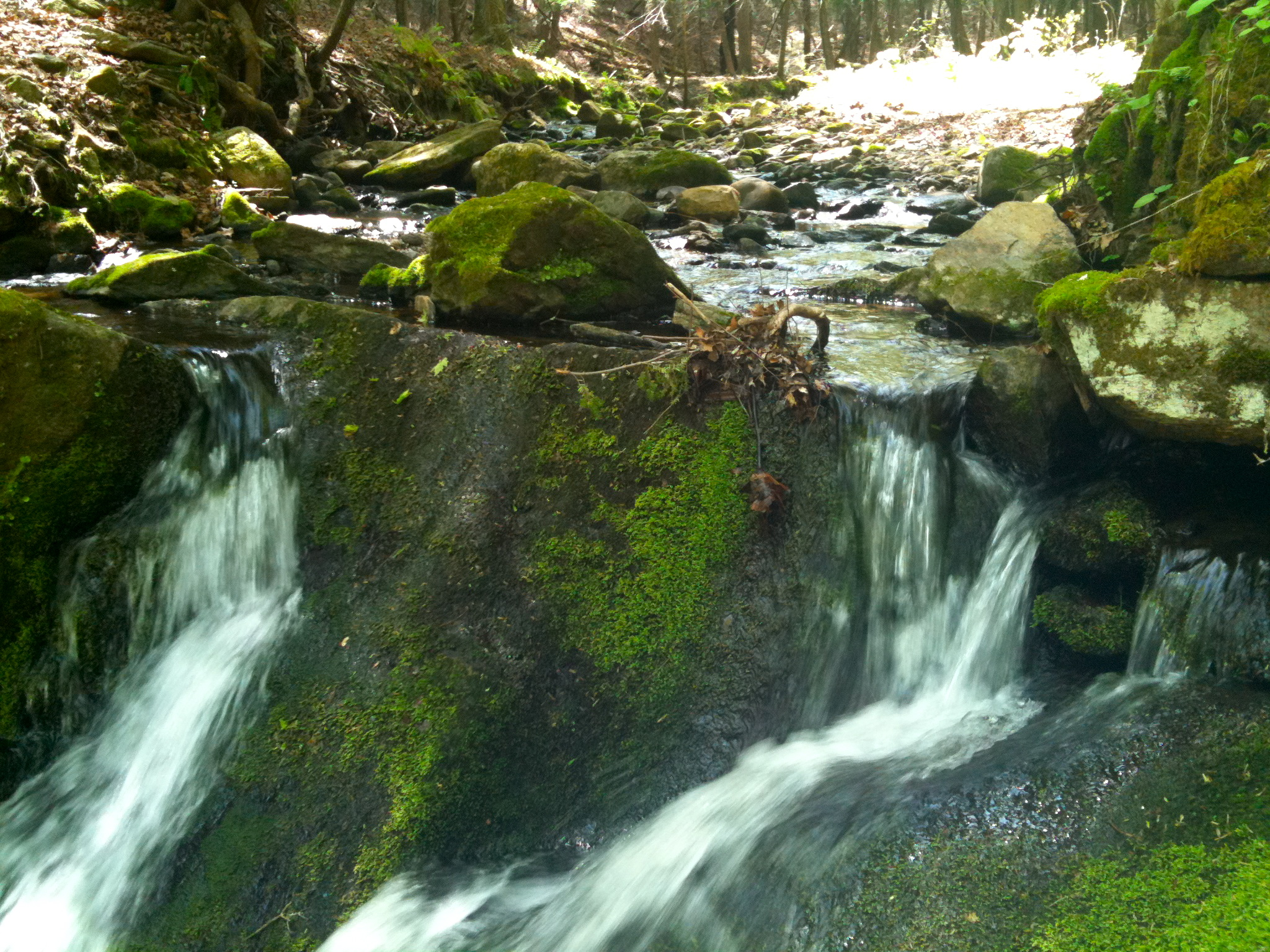 Jericho Blue-Blazed Trail. Jericho Brook waterfall flowing over dam into pool.